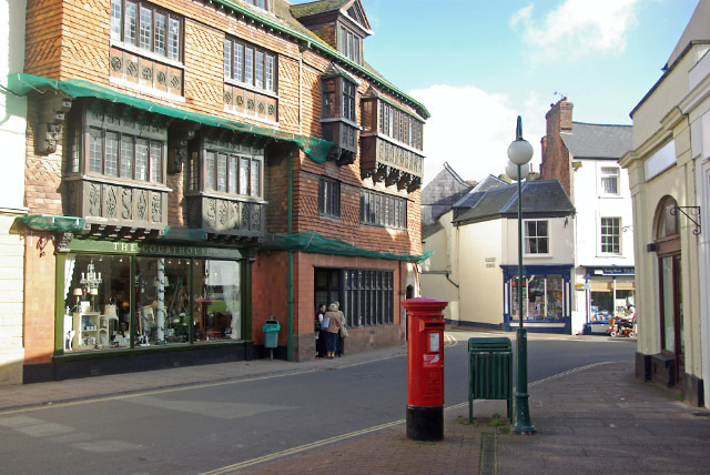 The Square, Wiveliscombe At one time the A361 Taunton - Barnstaple road, and with it most traffic heading for North Devon, passed through this narrow street creating a notorious bottleneck. Later, traffic was diverted to the south of the town and today the bulk of it is carried by the modern A361 North Devon Link. The prominent building on the left is a Victorian flight-of-fancy, built for the Hancock family. Today, it incorporates a shop, cafe and library.